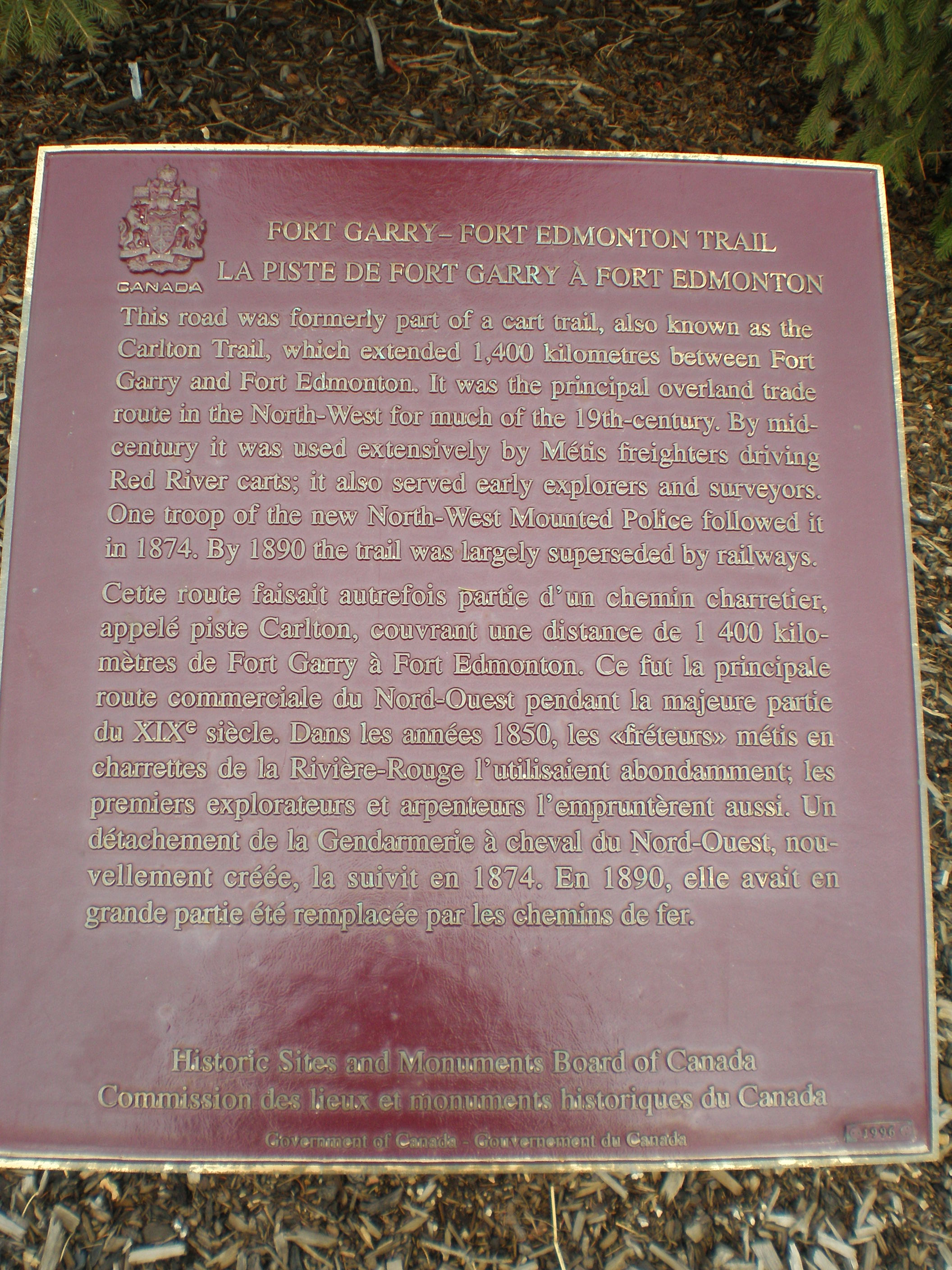 National Historic Event plaque for the "Fort Garry to Fort Edmonton Trail", also known as the Carlton Trail. Taken near the Alberta Legislature in Edmonton.